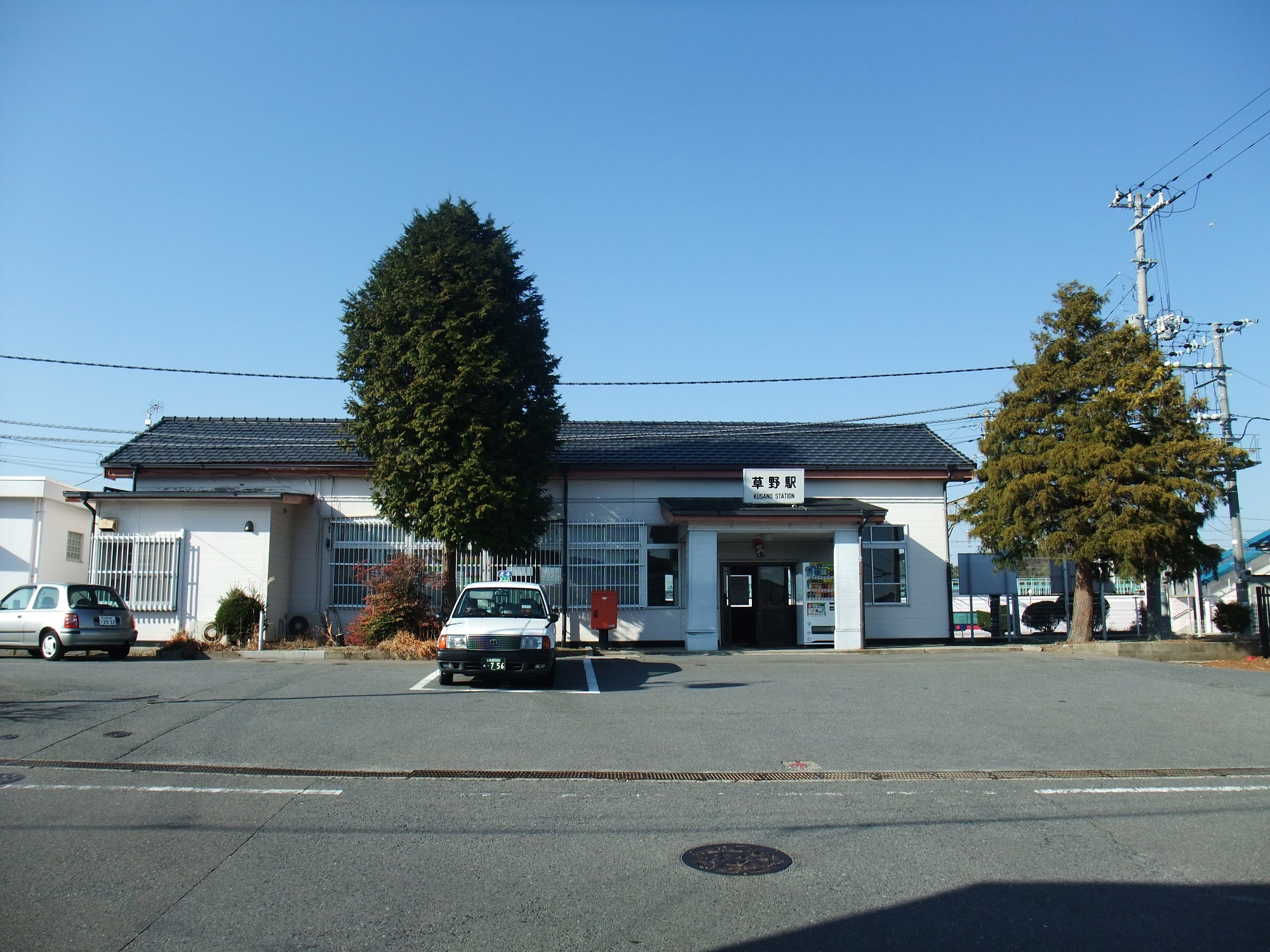 Kusano Station on the Joban Line in Fukushima Prefecture, Japan